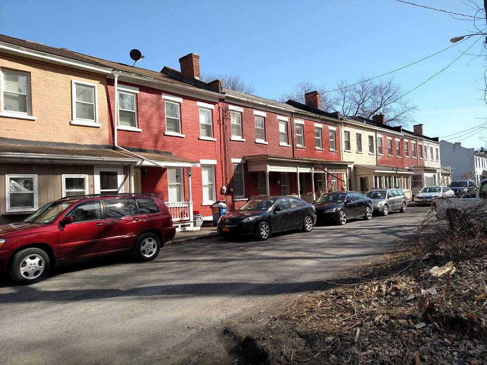 Houses in the Brick Row Historic District in Athens, NY. These rowhouses were built in the late 19th and early 20th centuries to house people who worked in the clay pits and brickyards that lined the nearby Hudson River, and their families.